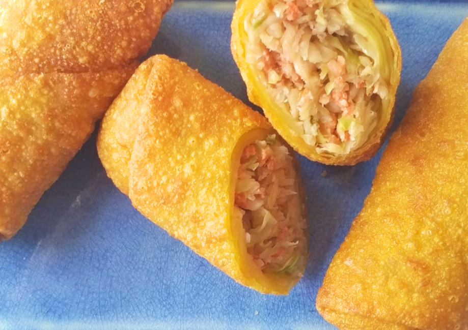 A photograph of a typical American egg roll snack on a blue porcelain plate.